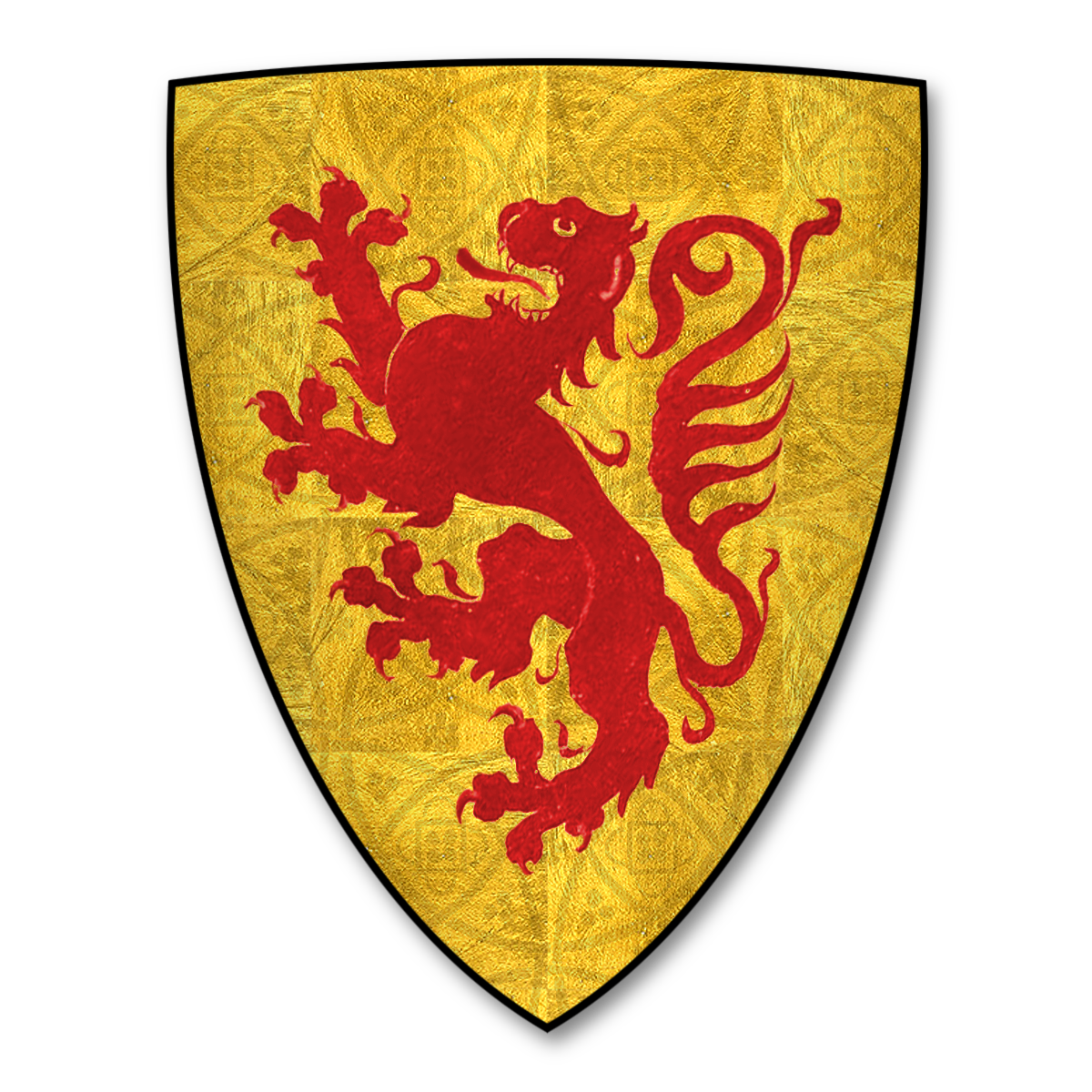 Armorial Bearings of the CHARLTON family of Ludford, Herefordshire Arms: Or, a lion rampant gules. Crest: A leopard's face gules. Strong, George (1848) The Heraldry of Herefordshire: Being a Collection of the Armorial Bearings of Families Which Have Been Seated in the County at Various Periods Down to the Present Time., London: Churton Press